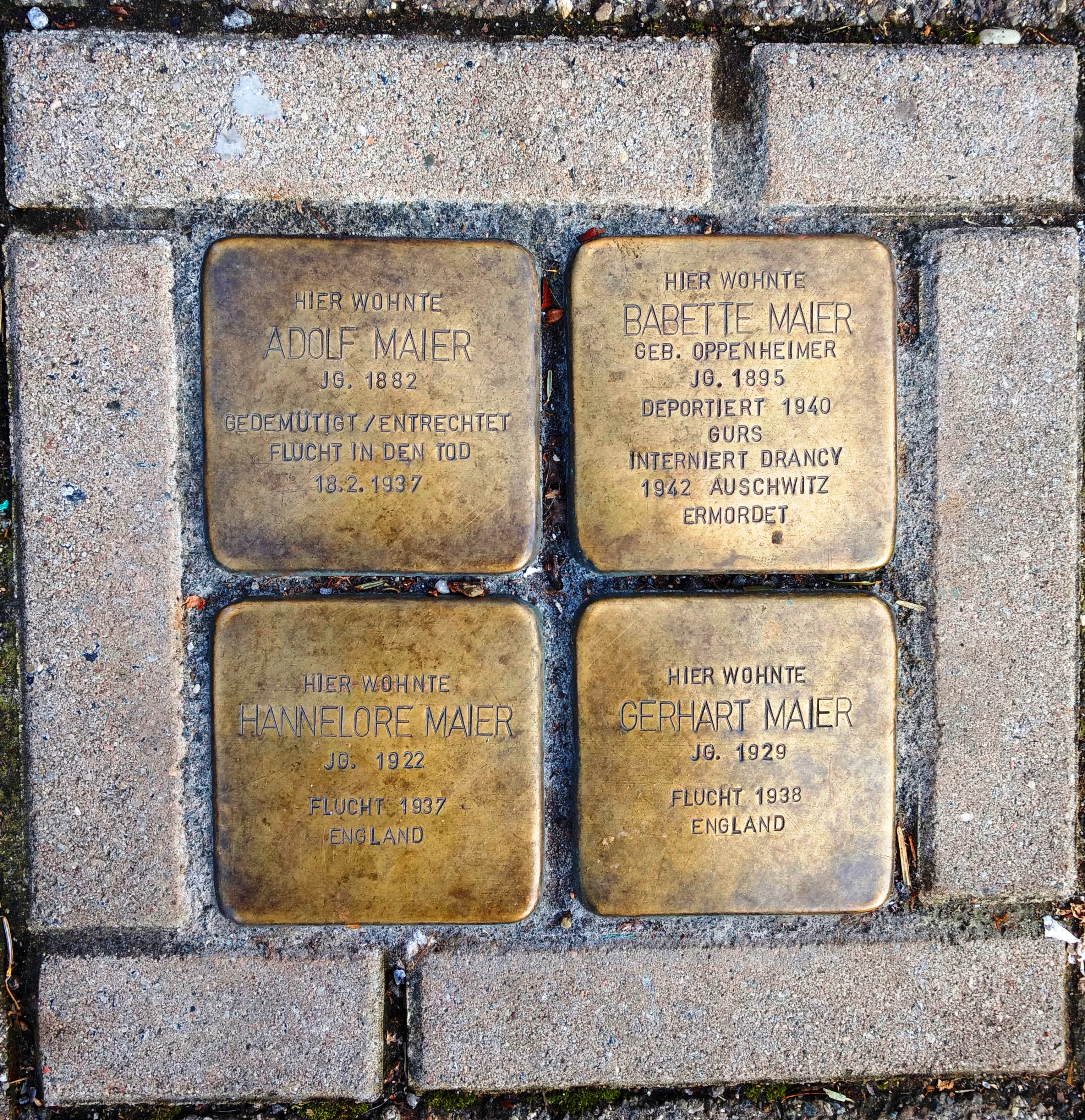 Four Stolopersteine placed in the sidewalk in front of Kaiserstrasse 117, Reutlingen, commemorating Holocaust victims.